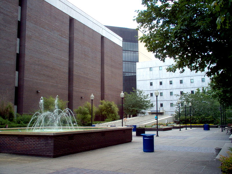 the view on Georgia State University library and Classroom South